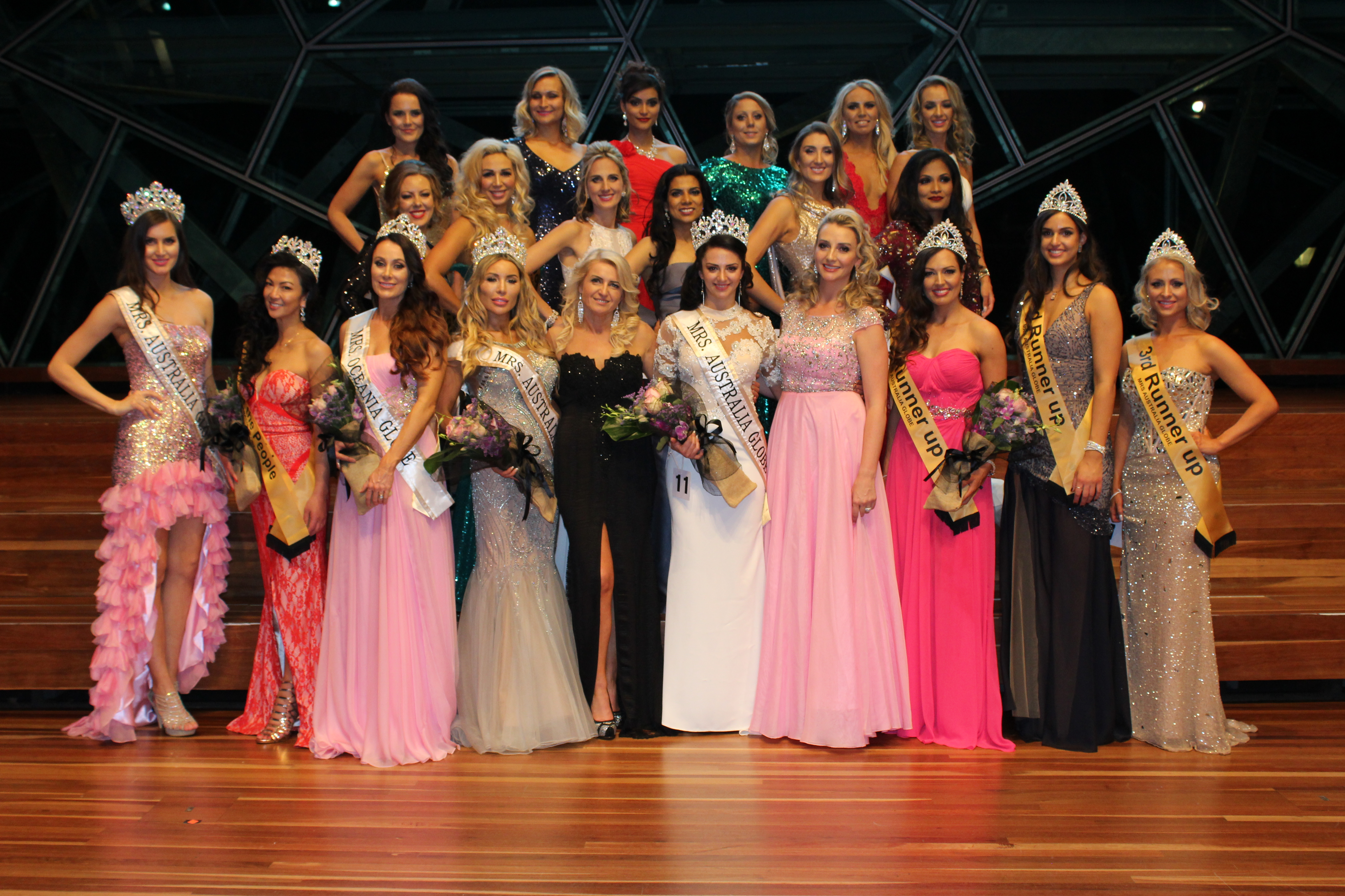 The 20 finalists of Mrs Australia Globe 2016 with directors Kylie Tsiaforgiannis & Sophie Gilinas at Federation Square by Photographer Dolores Couceiro.